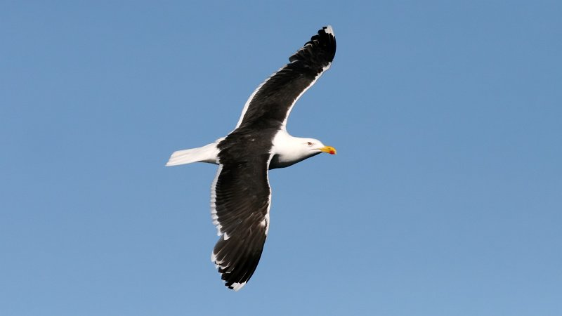 Great Black-backed Gull (Larus marinus)